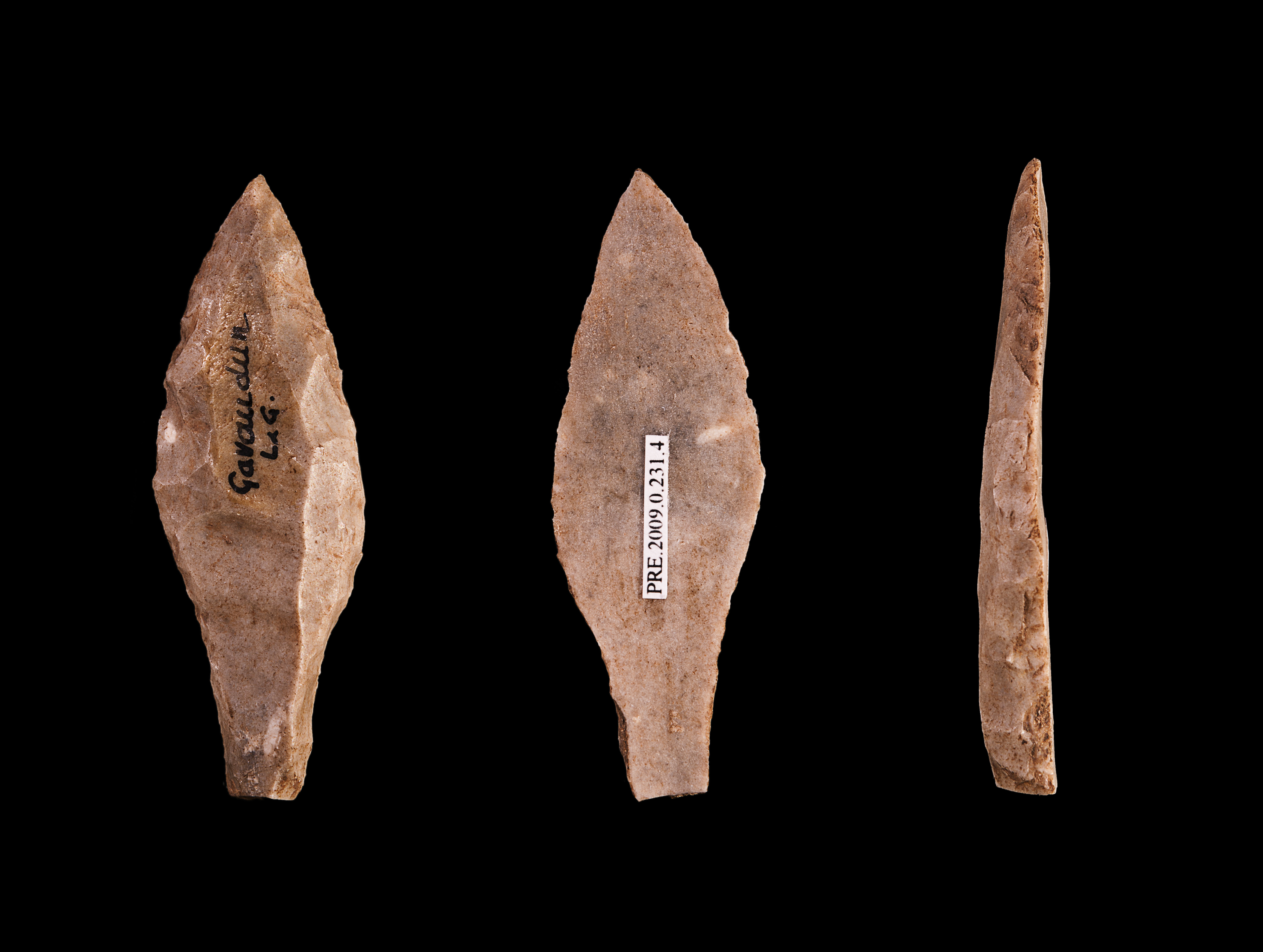 Arrowhead Font-Robert - Different views of the same specimen